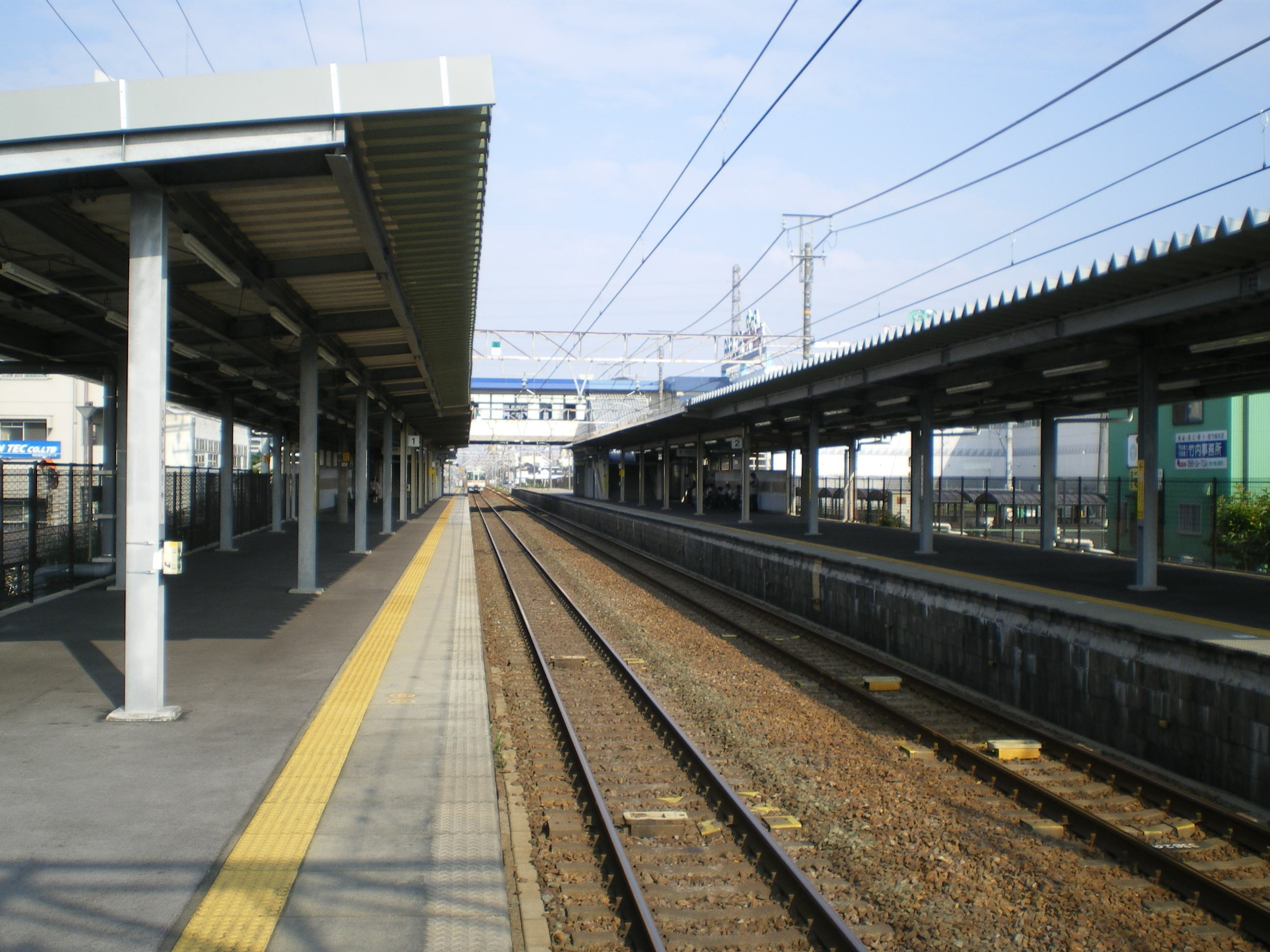 Central Japan Railway Tōkaidō Main Line Higashi-kariya Station Platform